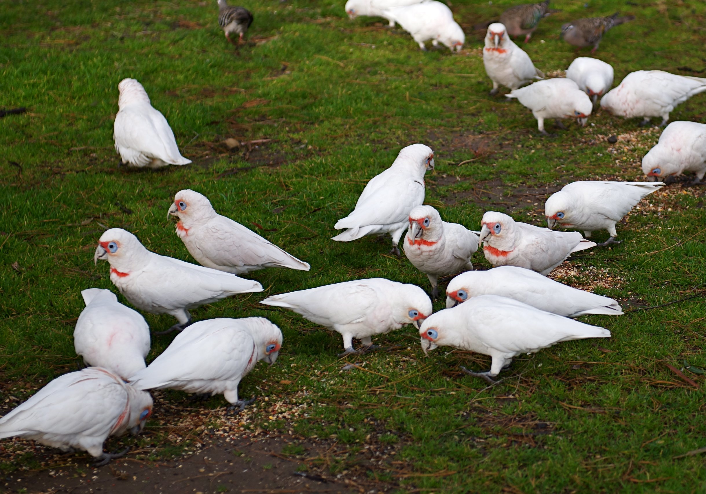 Several Long-billed Corellas eating food on the ground in Melbourne, Australia.